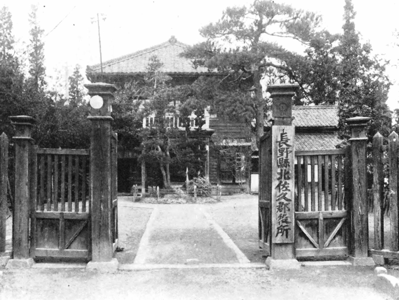 Kitasaku district office.